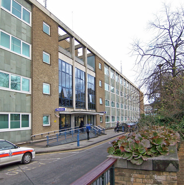 Hull Central Police Station These Police offices are situated on Queen's Dock Avenue.